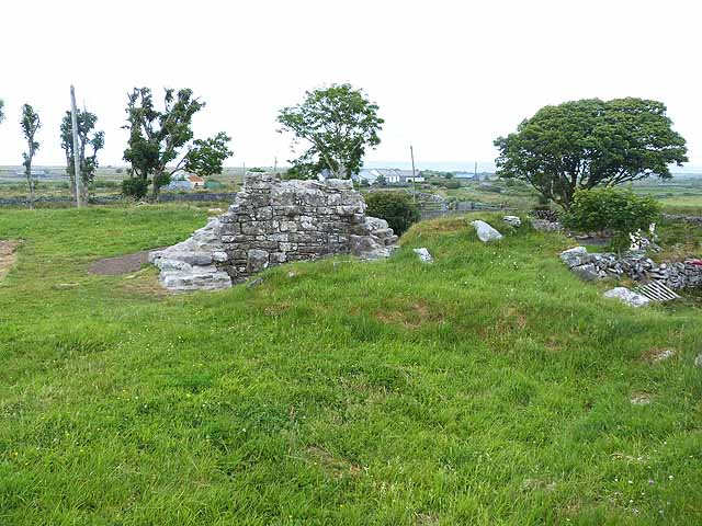 Cahermacnaughten